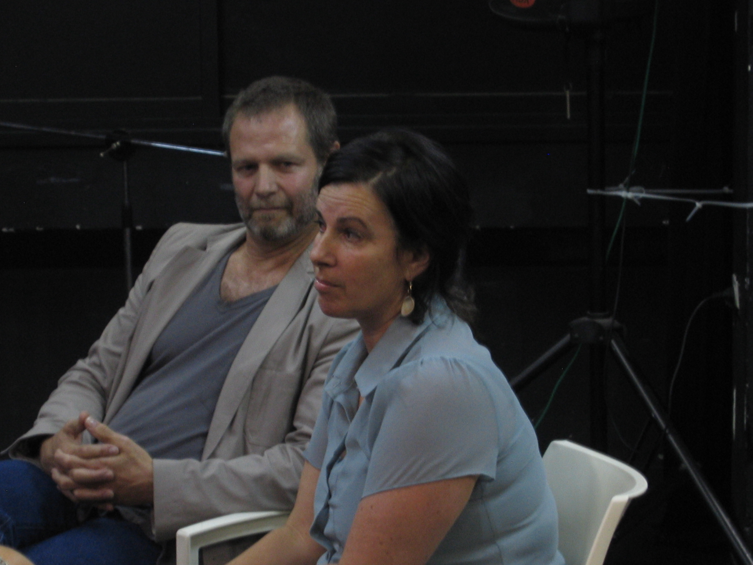 Liat Dror & Nir Ben Gal